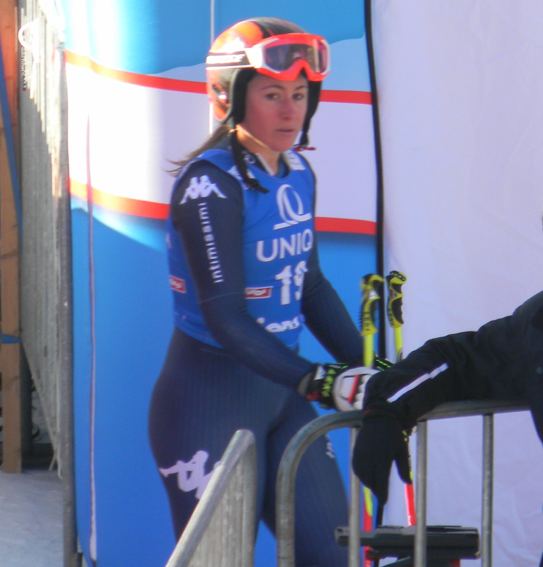 Sofia Goggia after the Audi FIS Alpine Ski World Cup Women's Giant Slalom on December 28, 2015 in Lienz, Austria